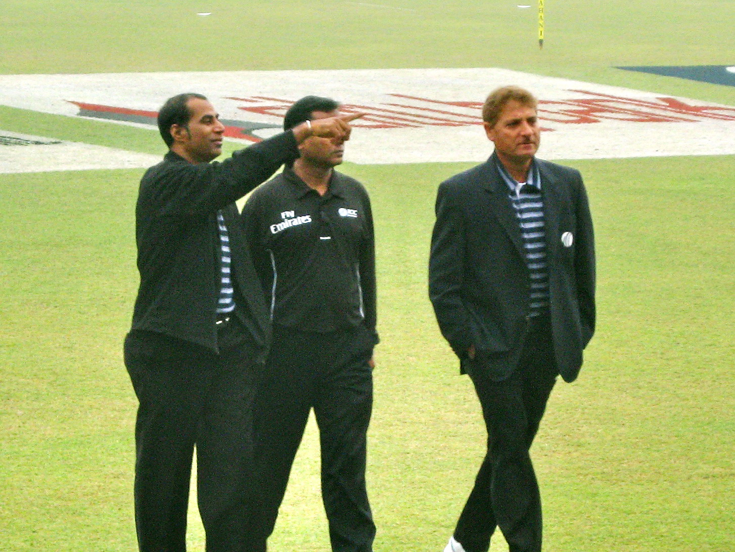 Match umpires Enamul Haque, AFM Akhtaruddin and Zameer Haider examining Mirpur ground before 3rd ODI between Bangladesh and Zimbabwe in January 2009.